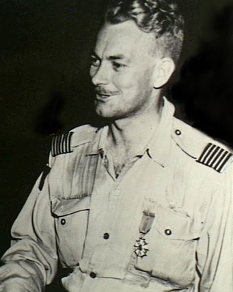 Iwakuni, Japan. Wing Commander Louis Spence DFC, No. 77 Squadron RAAF.